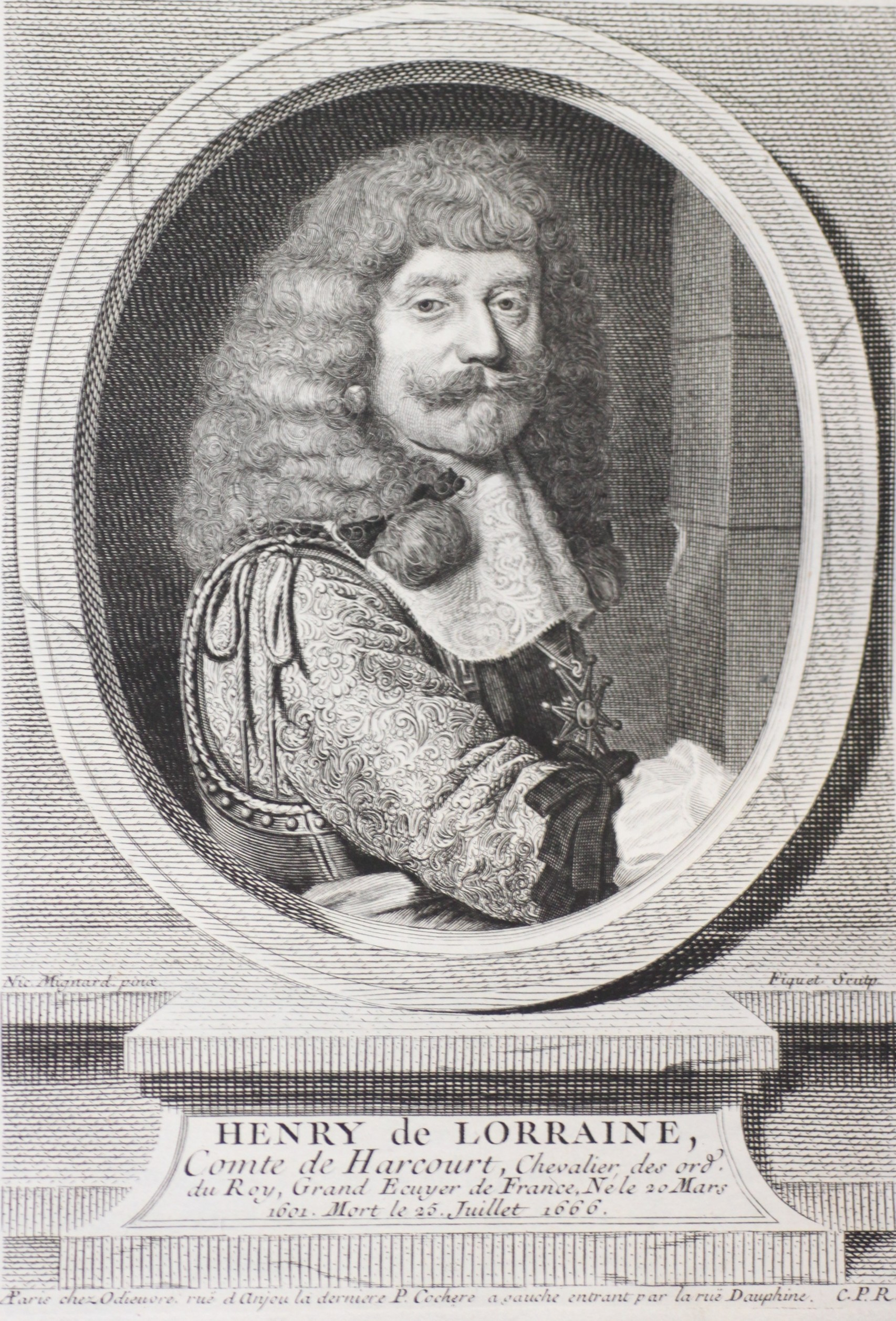 Henri de Lorraine-Harcourt in Histoire du règne de Louis XIV by Reboulet, Avignon 1744